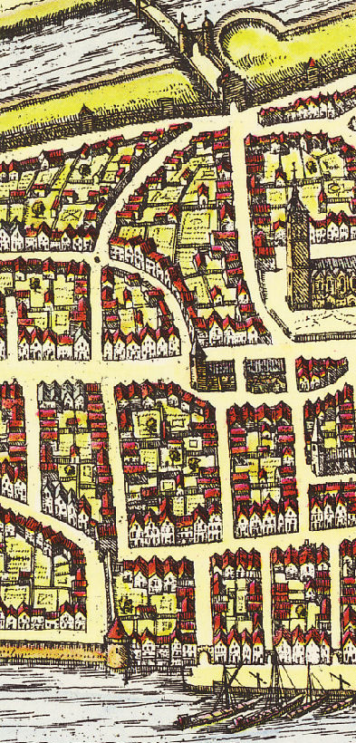 Cut of the map of Bremen printed by Frans Hogenberg in 1689